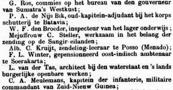 Dutch missionary in the Dutch East Indies, Albert Christian Kruyt, is among the receivers of Oranje-Nassau Star from the Dutch Empire.